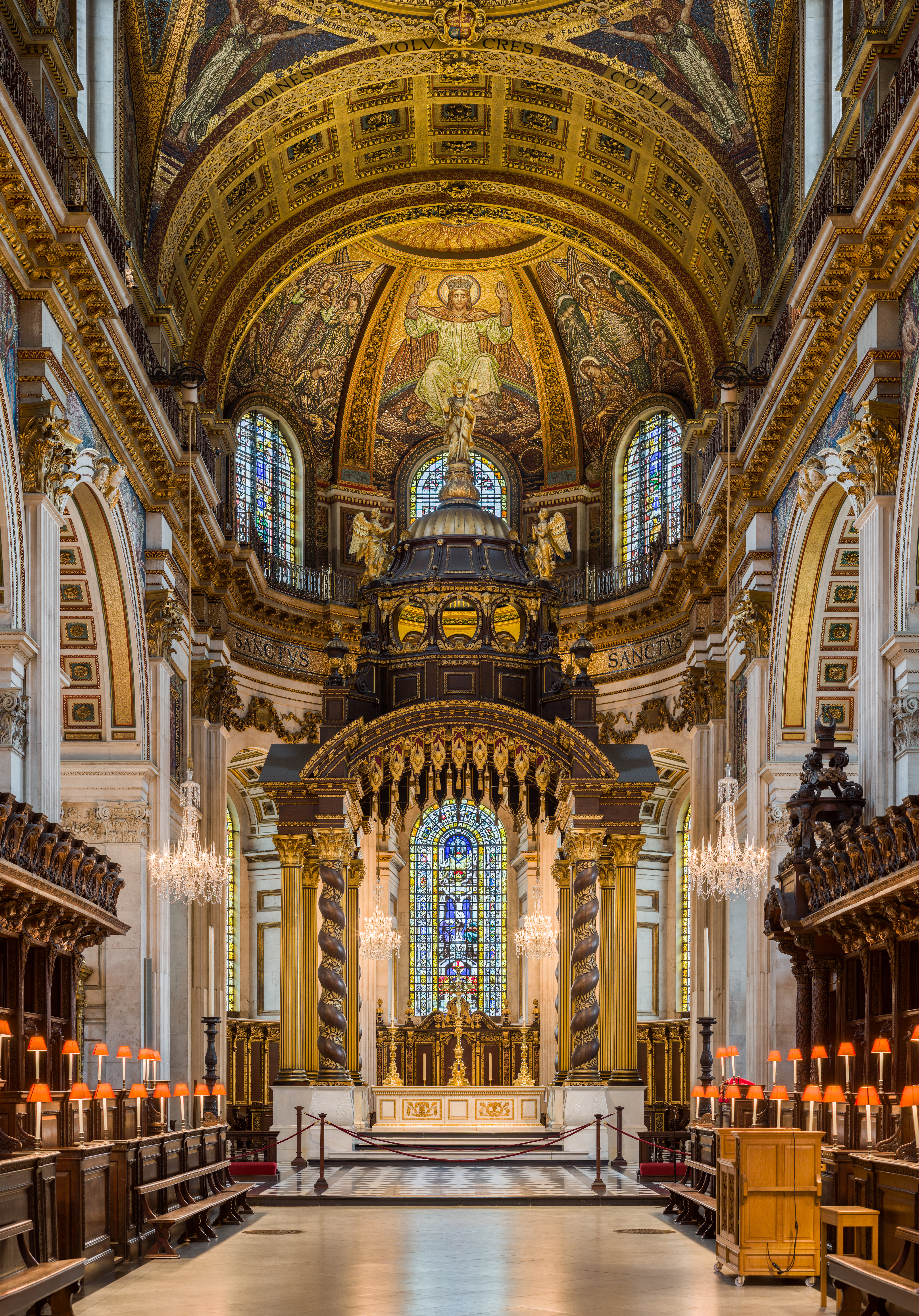 The High Altar of St Paul's Cathedral as viewed from the choir.